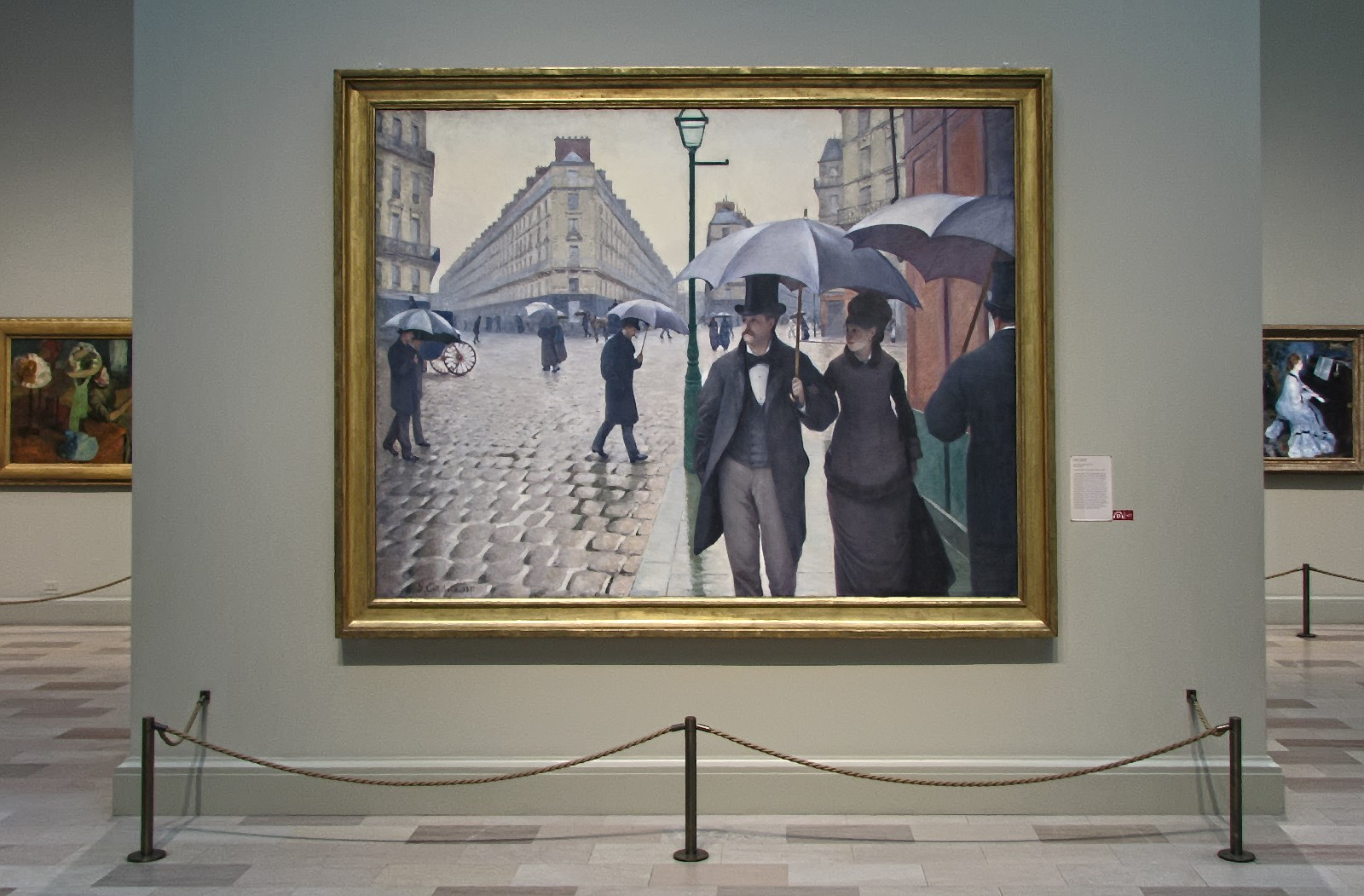 Photo show the real size of Paris Street; Rainy Day, painting by Gustave Caillebotte